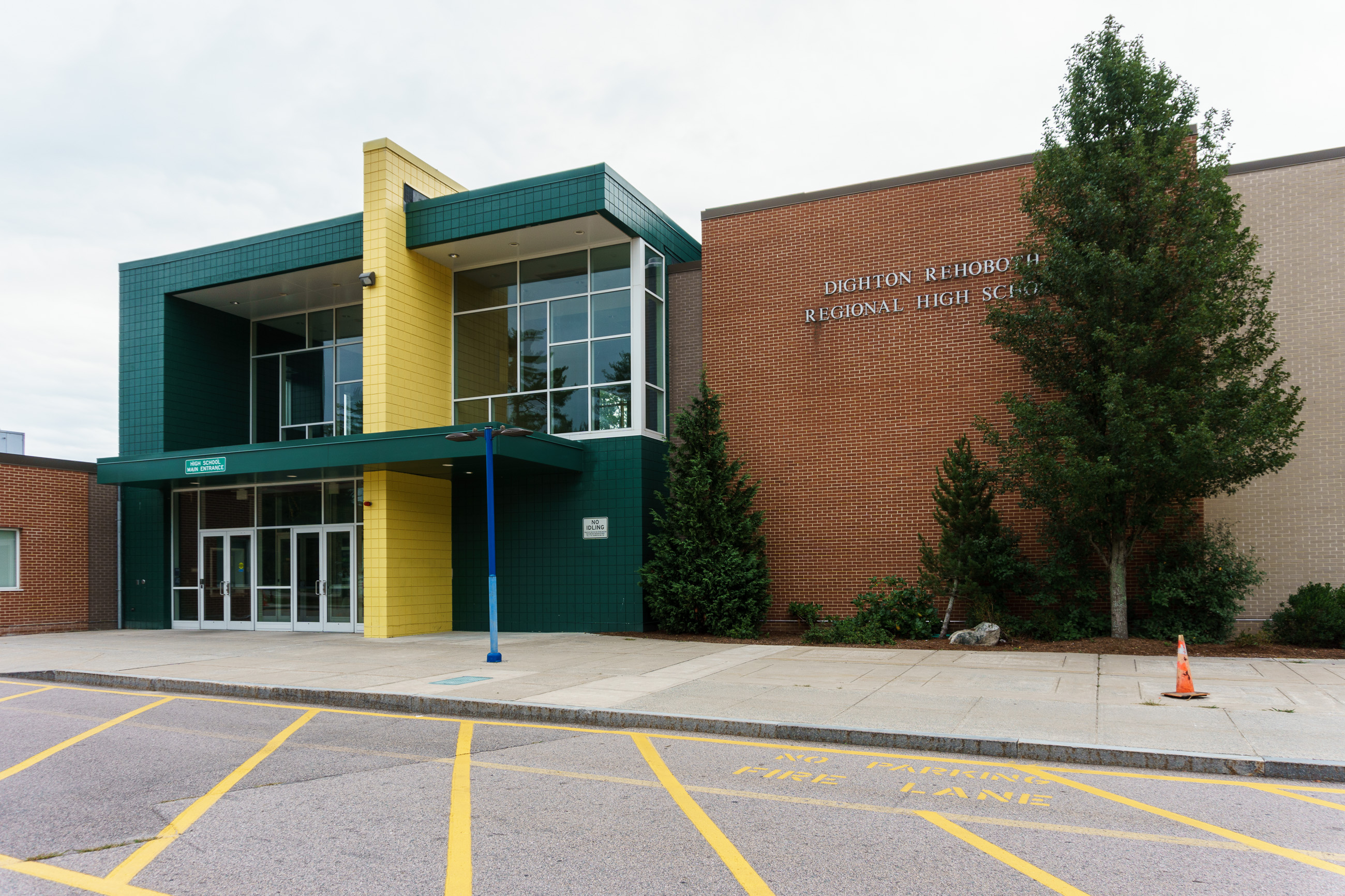 Main entrance to Dighton Rehoboth Regional High School.